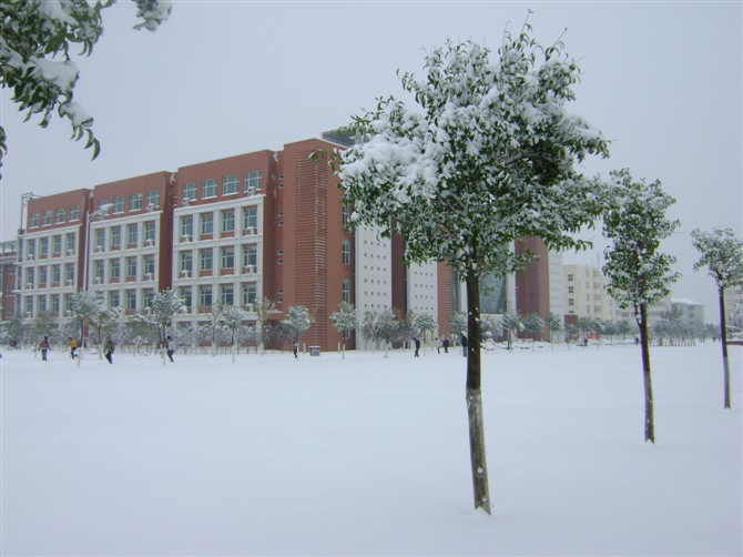 Zhengzhou Institute of Aeronautical Industry Management,located in Zhengzhou City, Henan Province.